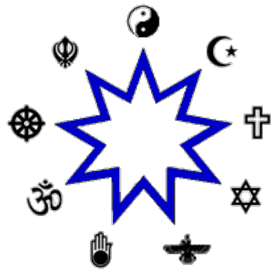 Unity of religion is a core teaching of the Bahá'í Faith which states that there is a fundamental unity in many of the world's religions. This emblem is a depiction of common Baha'i symbol of Nine-pointed star united with symbols of nine major world religions.